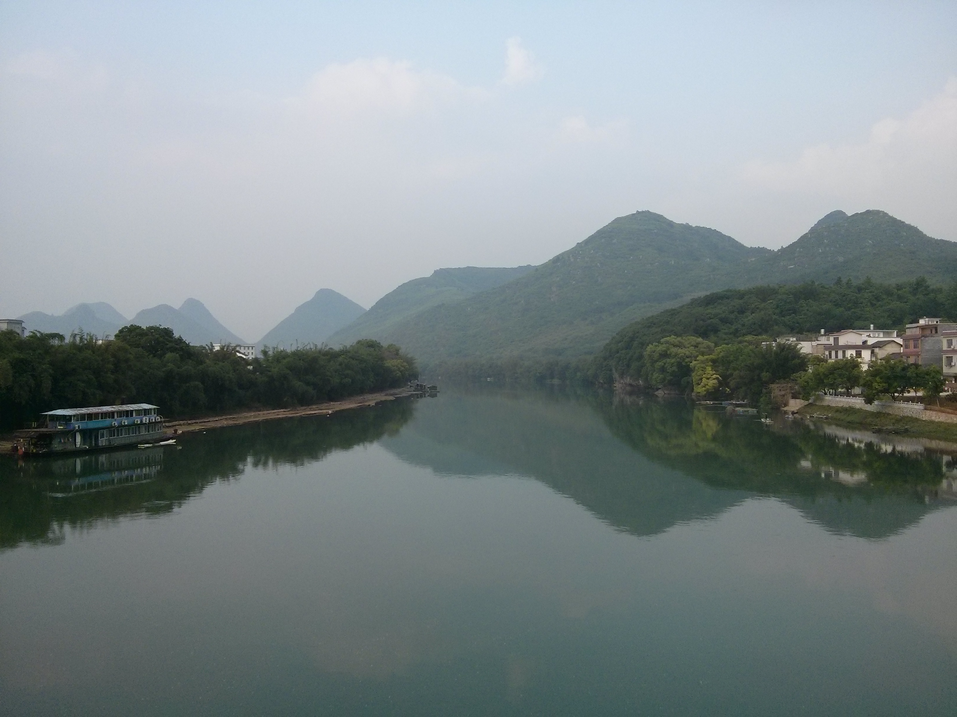 Tea River,Gong`cheng county